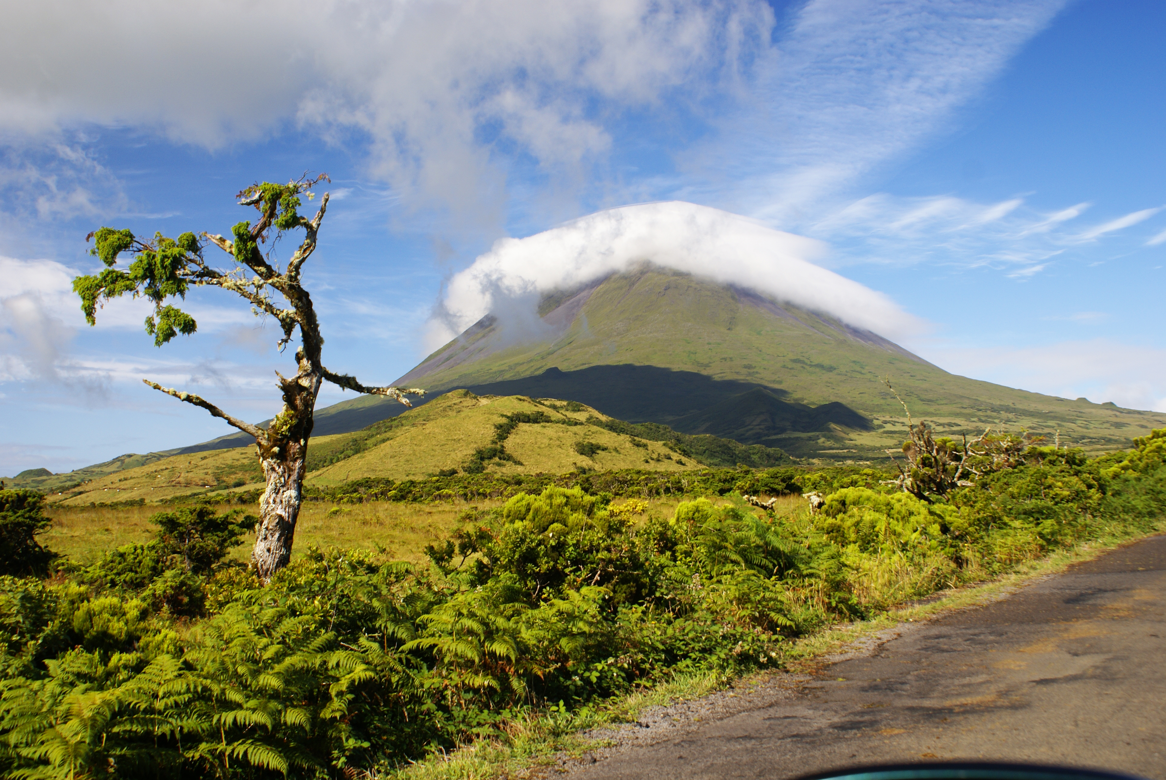 Montanha do Pico, aspectos 5 ilha do Pico, Açores, Portugal